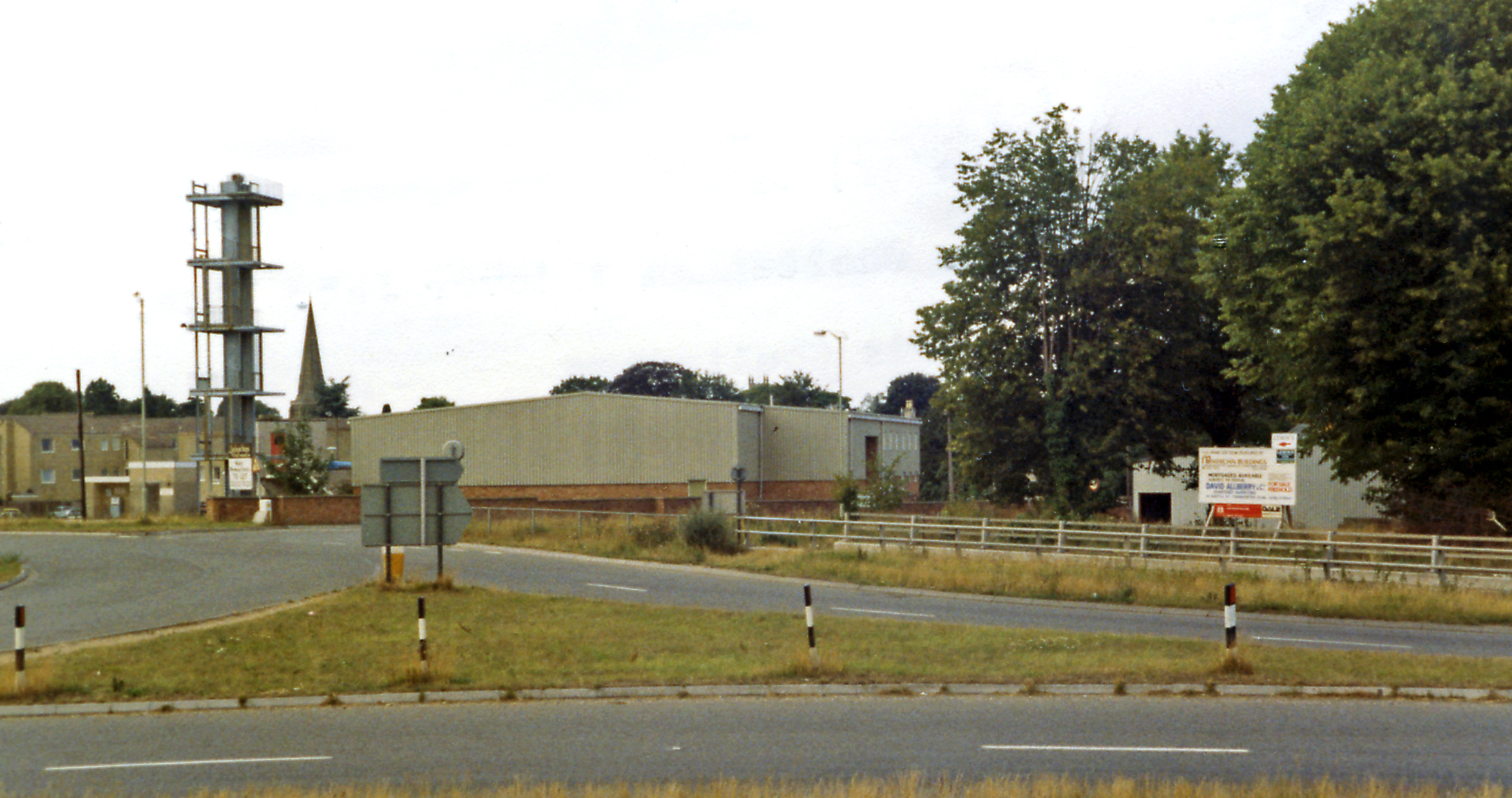 Site of Cirencester Watermoor station (M&SWJR). View northward from Bristol Road, towards Cheltenham: ex-GWR (Midland & South-Western Joint line), Cheltenham - Cirencester - Swindon - Marlborough - Andover Junction. The whole line and station were closed from 11/9/61 and no trace is to be seen in 1984.